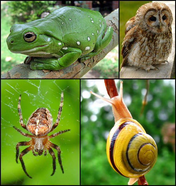 A collage depicting animal diversity using a featured pictures. The photos used: Image:Georgia_Aquarium_-_Sawshark_Jan_2006.jpg Image:Arowanacele4.jpg Image:GreenSeaTurtle-2.jpg Image:Caerulea3_crop.jpg Image:Snail-WA_edit02.jpg Image:Siberischer_tiger_de_edit02.jpg Image:Gibraltar_Barbary_Macaque.jpg Image:Araneus_diadematus_(aka).jpg Image:Melanargia_galathea_bottom_MichaD.jpg Image:Tawny_wiki_edit1.jpg Image:Anthidium_September_2007-2.jpg